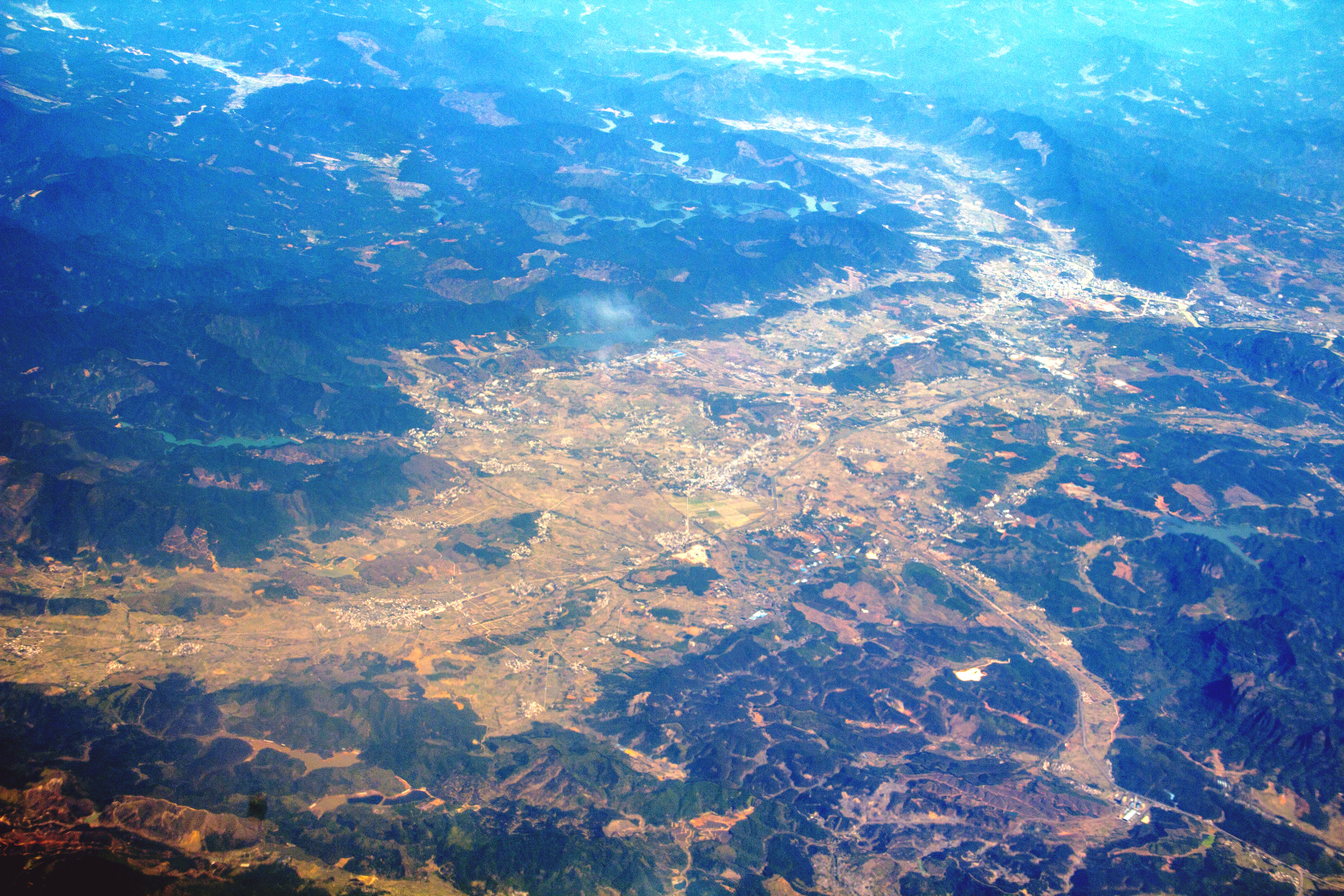 photo taken on plane